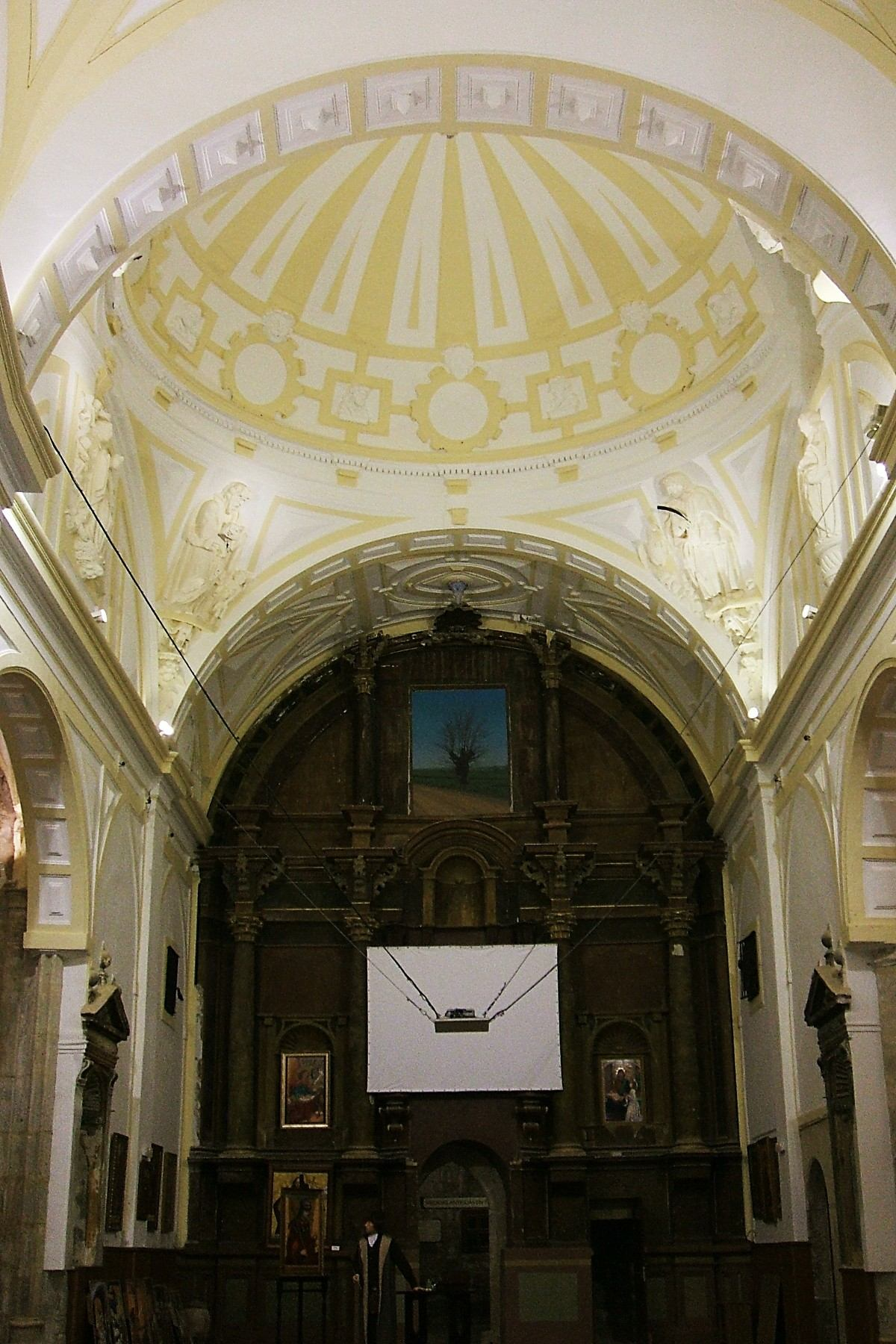 Cabecera barroca de la antigua iglesia de San Martín, hoy habilitada como Centro de Interpretación de Tierra de Campos, en Paredes de Nava, Palencia, Castilla y León, España